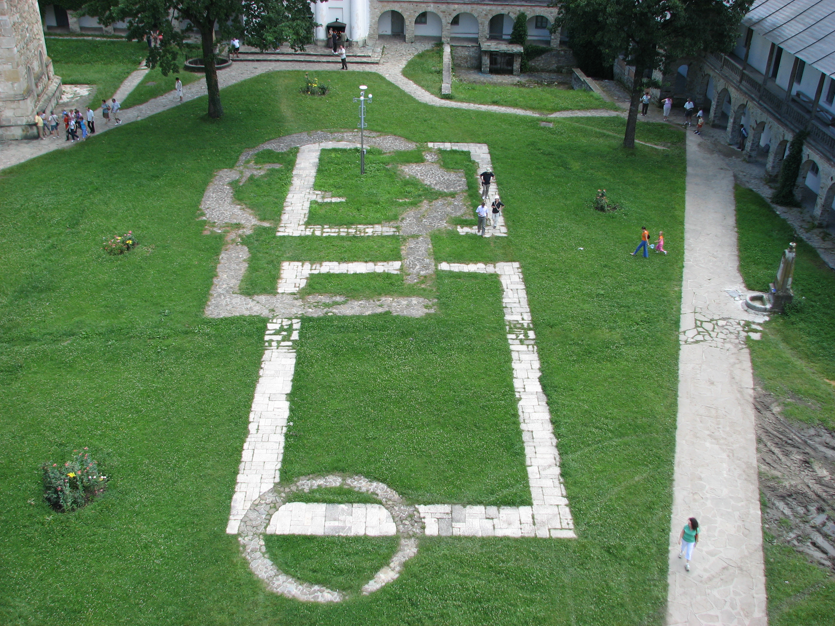 Monastery Neamţ, fundaments